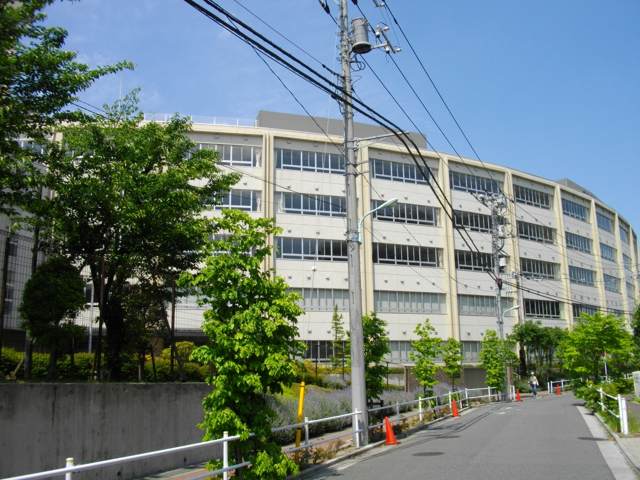 Teikyo Junior & Senior High School